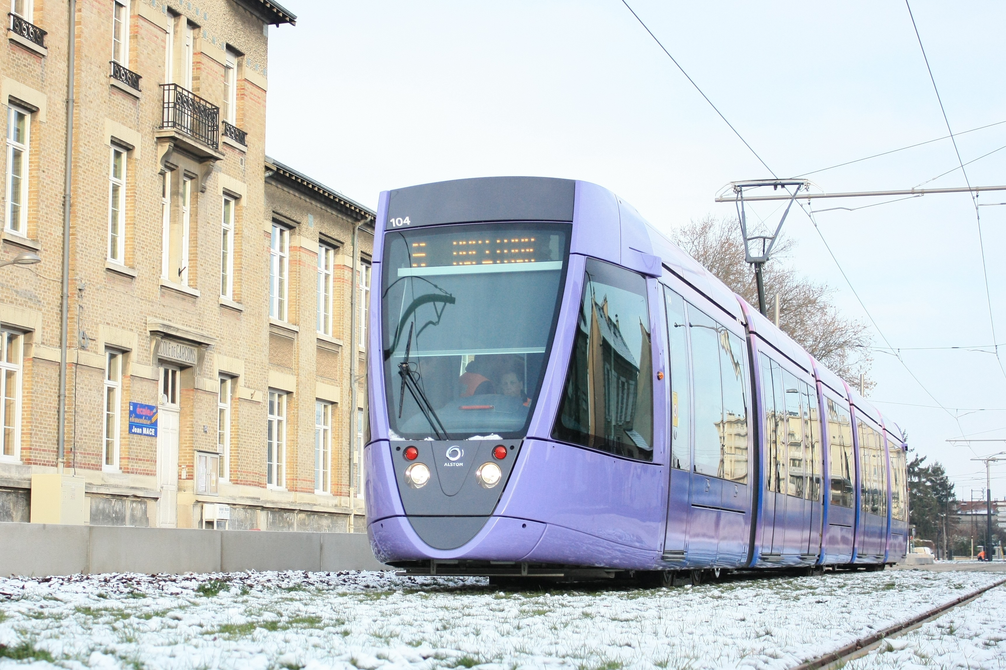 Alstom Citadis TGA 302 TORA on test. Rheims France.